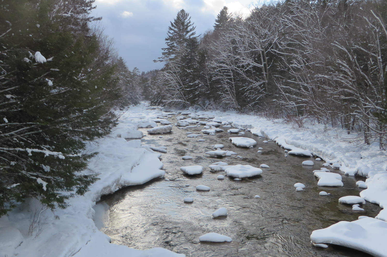 Mad River (Pemigewasset River) from Upper Mad River Road bridge at Thornton/Waterville Valley town line.